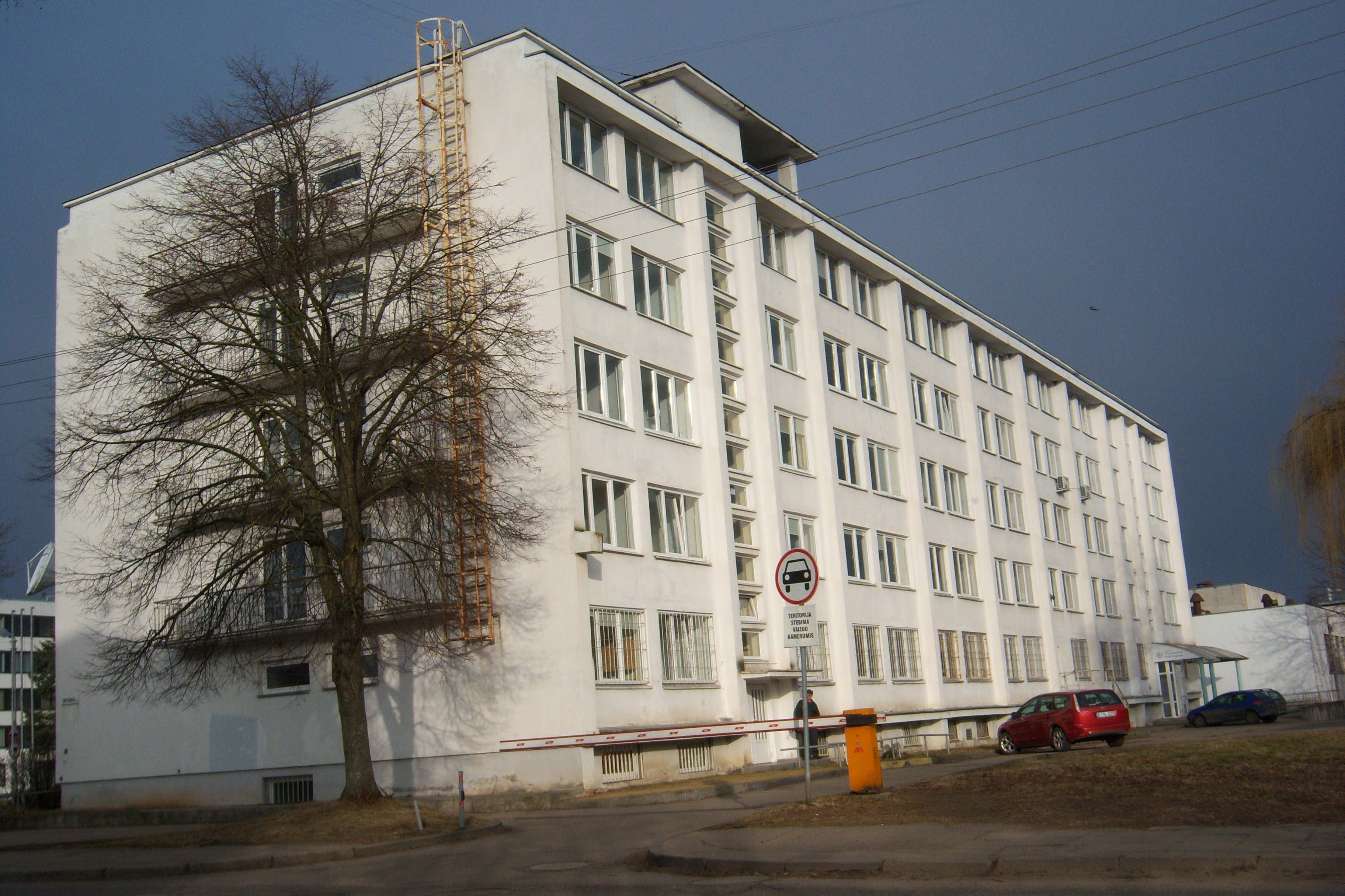 Gymnasium of Kaunas University of Technology, Lithuania